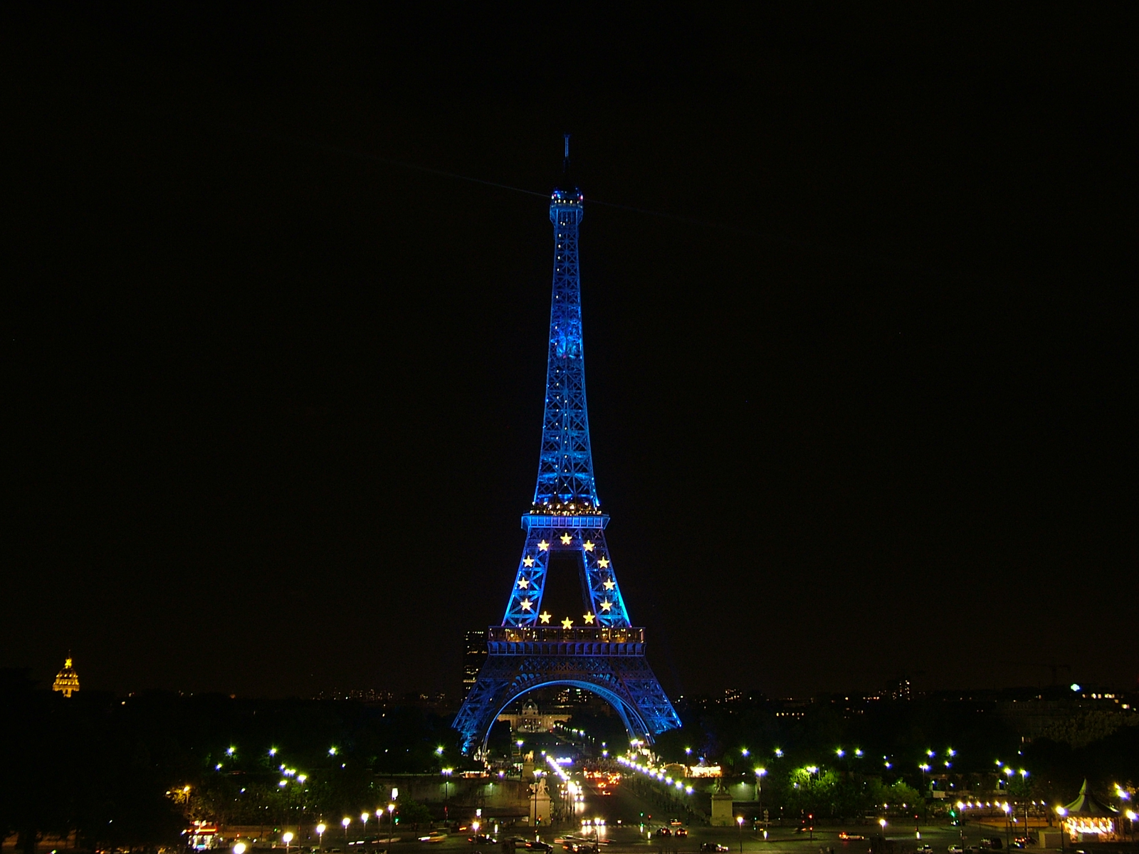 Eiffel tower, 2008